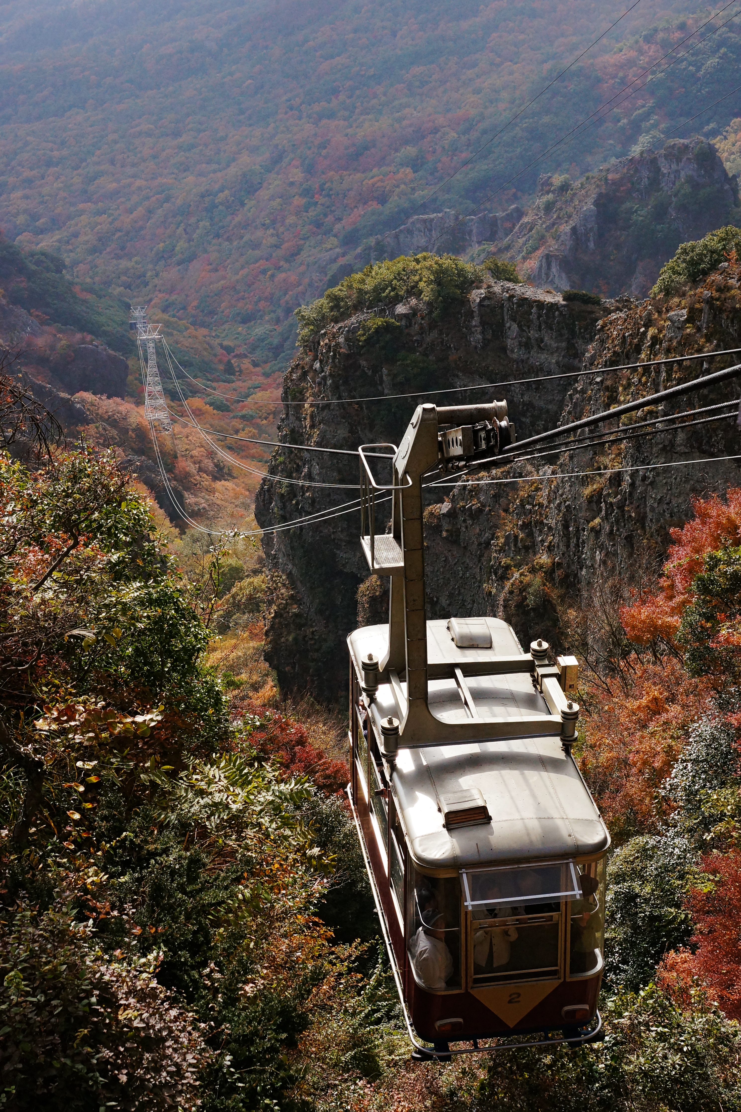 Kankakei in Shodoshima, Kagawa Prefecture, Japan